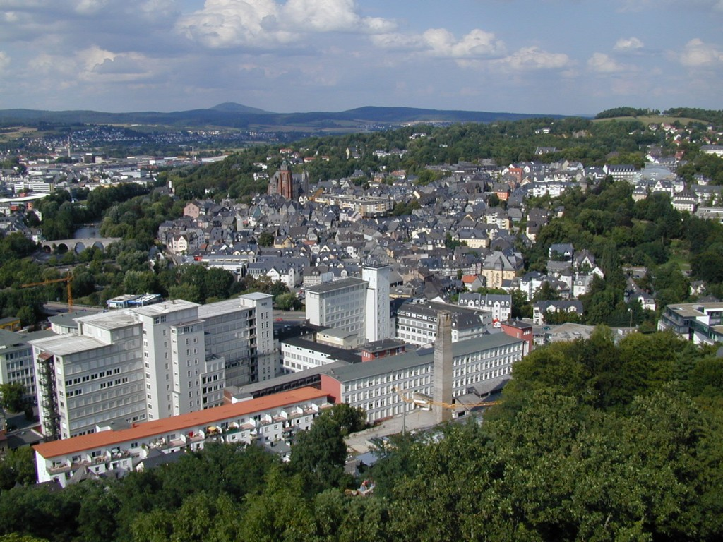 Blick von der Burgruine Kalsmunt auf Wetzlar